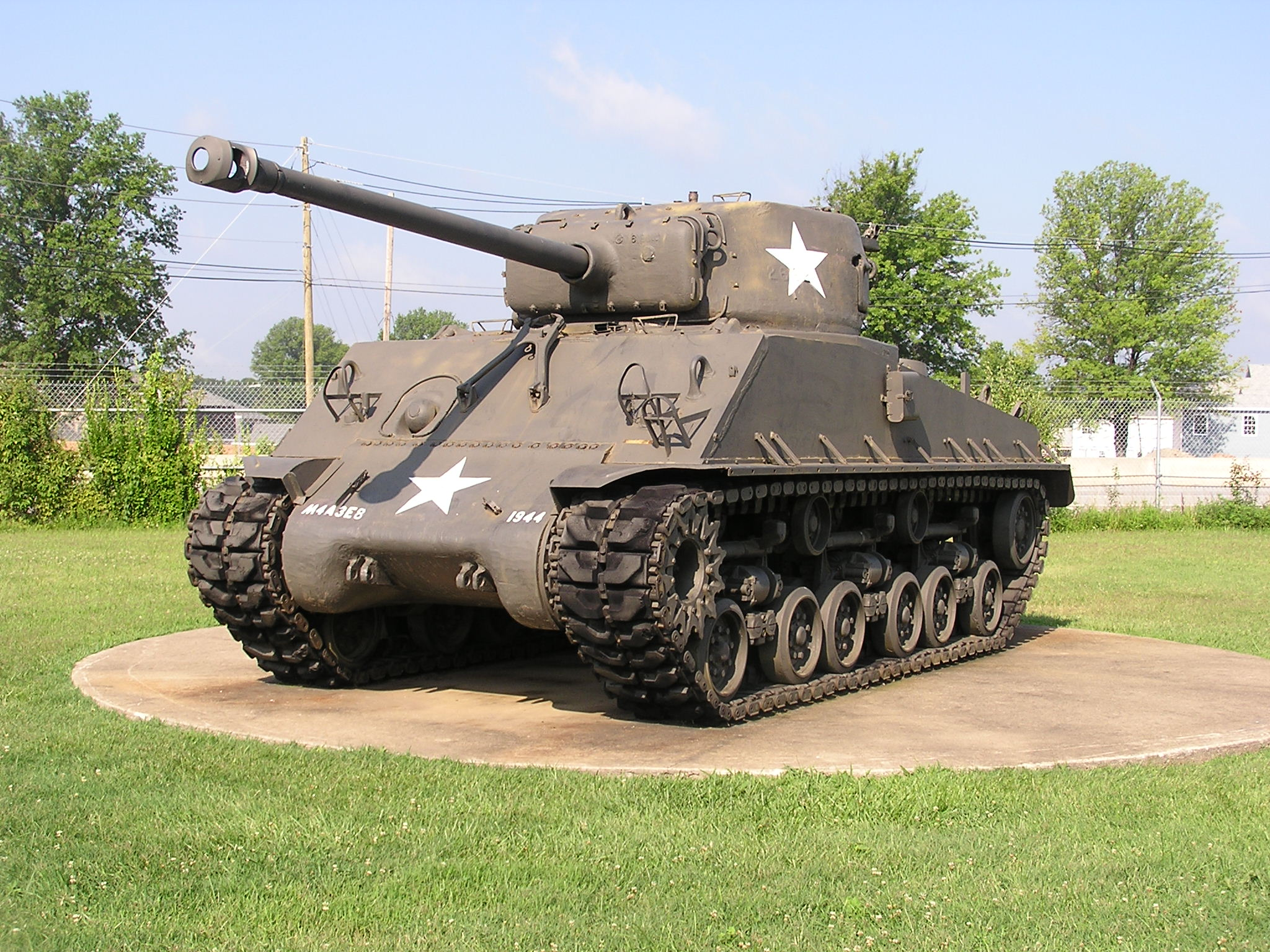 Sherman Tank, George Patton Museum, Fort Knox, KY